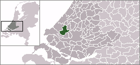 Location of Midden-Delfland